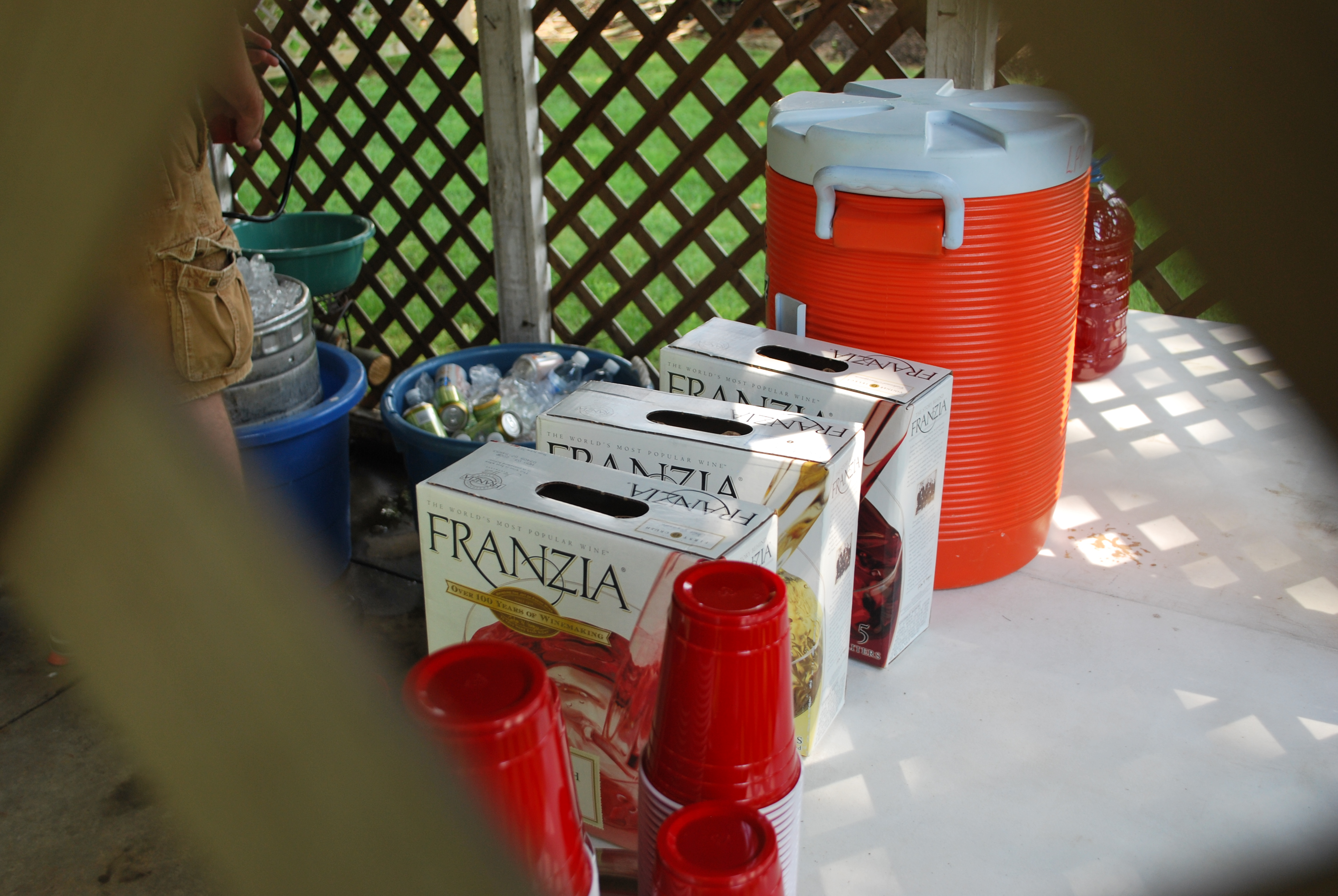 The American box wine Franzia from California